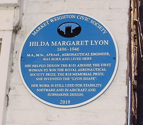 Plaque in Market Weighton, East Riding of Yorkshire, England.